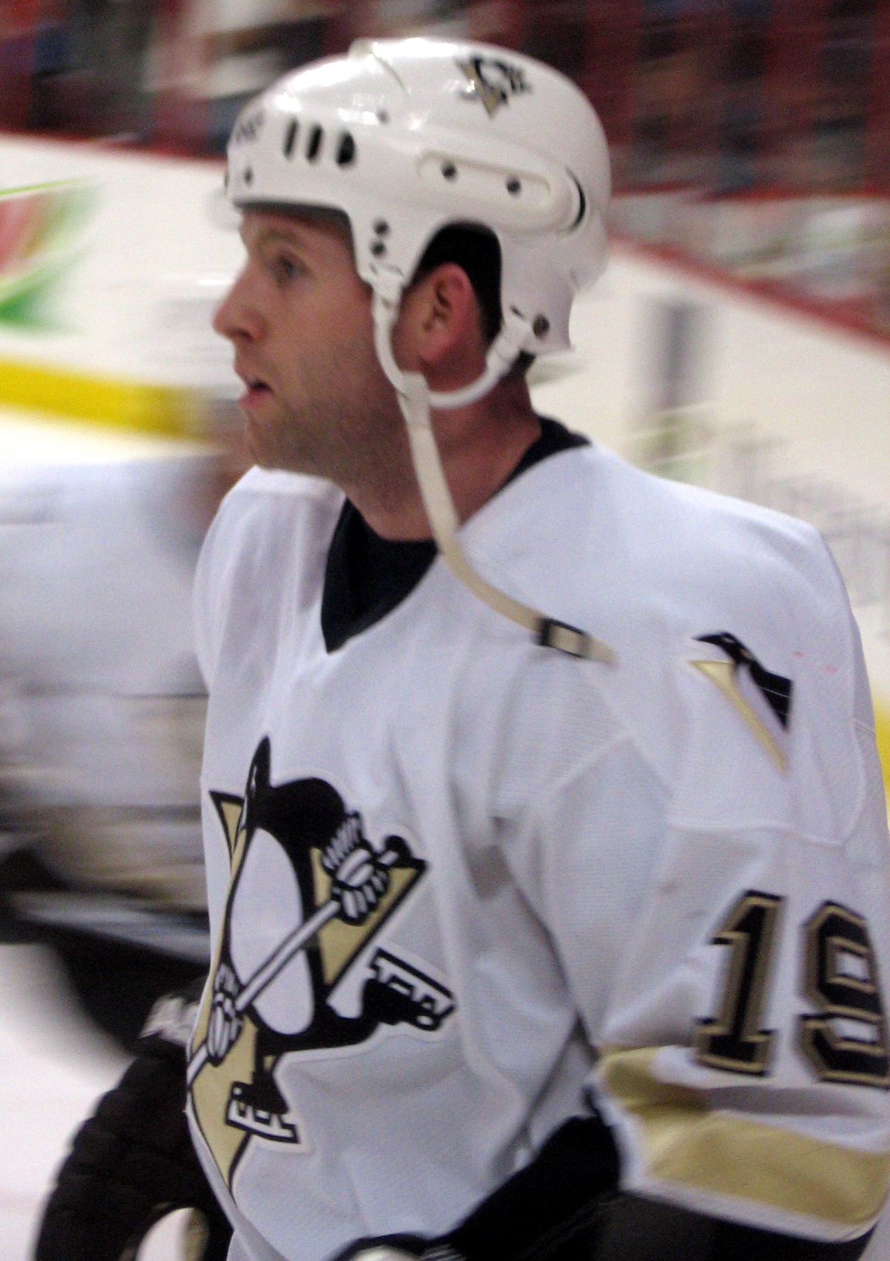 Taken before the Penguins' game against the Philadelphia Flyers on January 13, 2007.